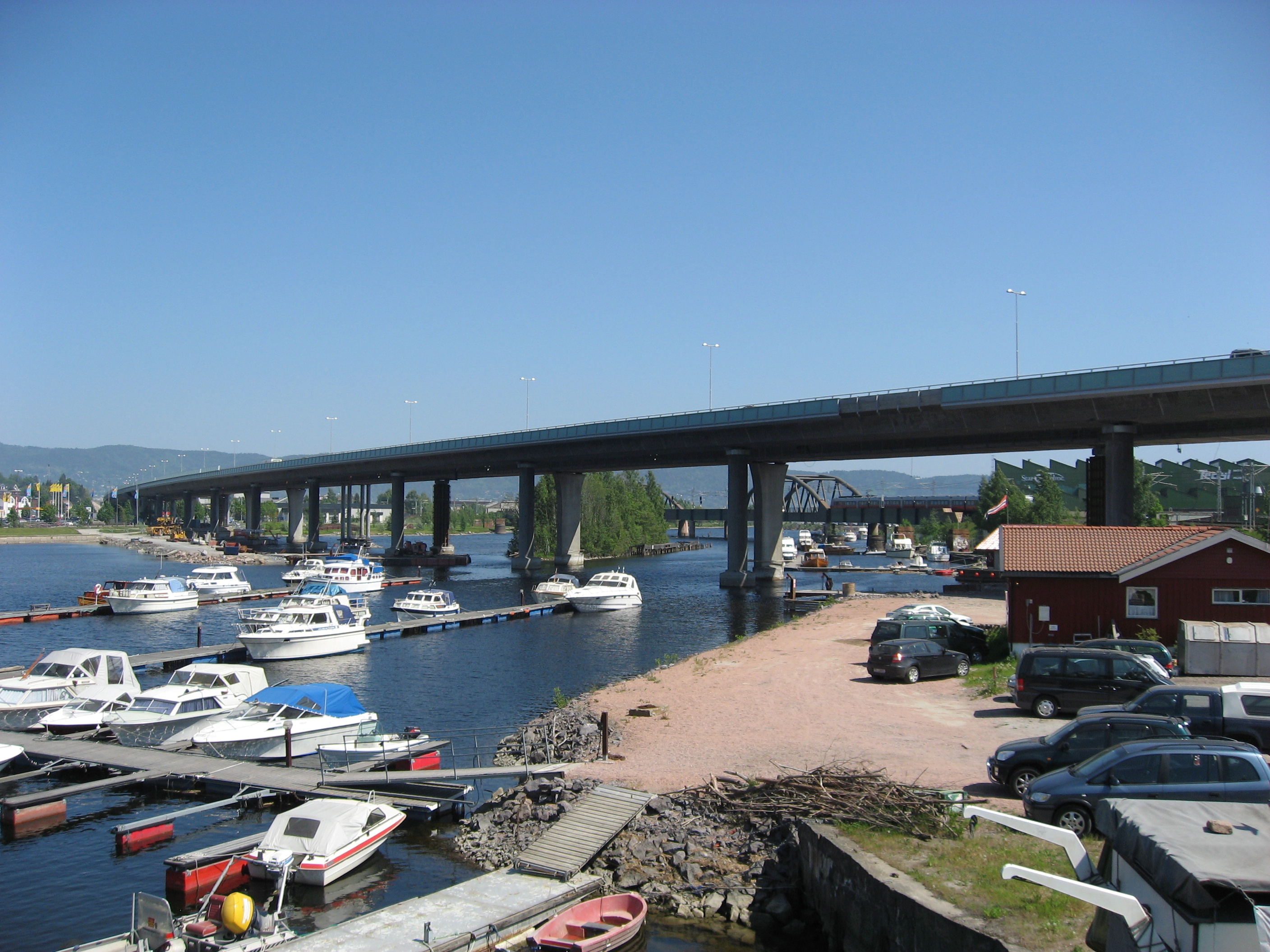 Motorway bridge in Drammen, Norway. The bridge north of the mid-river island.